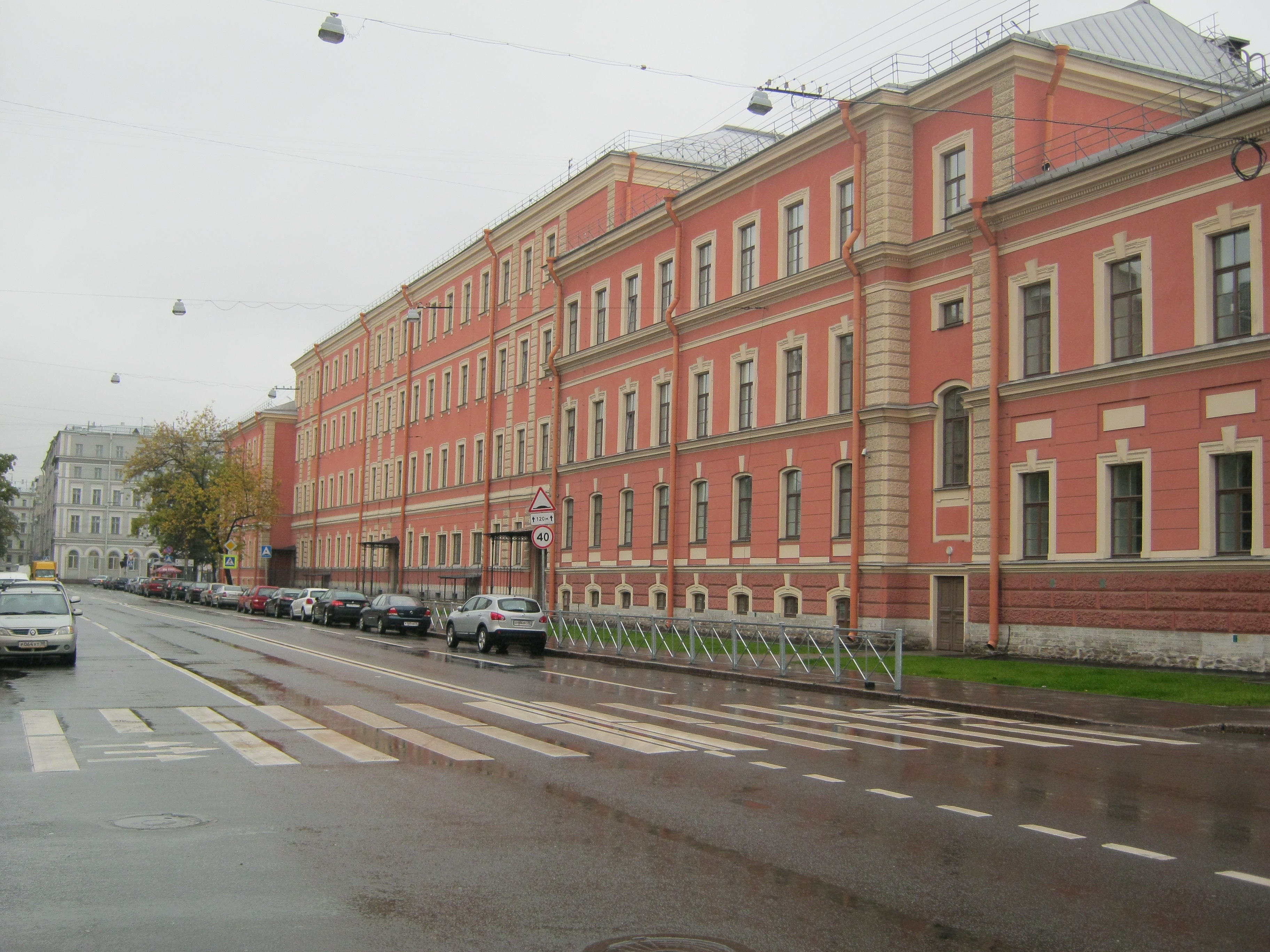 Hospital named after Rauhfus: Front View from Greek Prospect